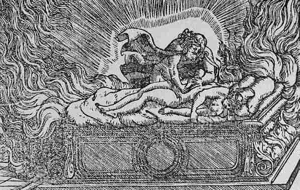 Infant Bacchus torn from Semele’s womb to be sewn into Jupiter’s thigh